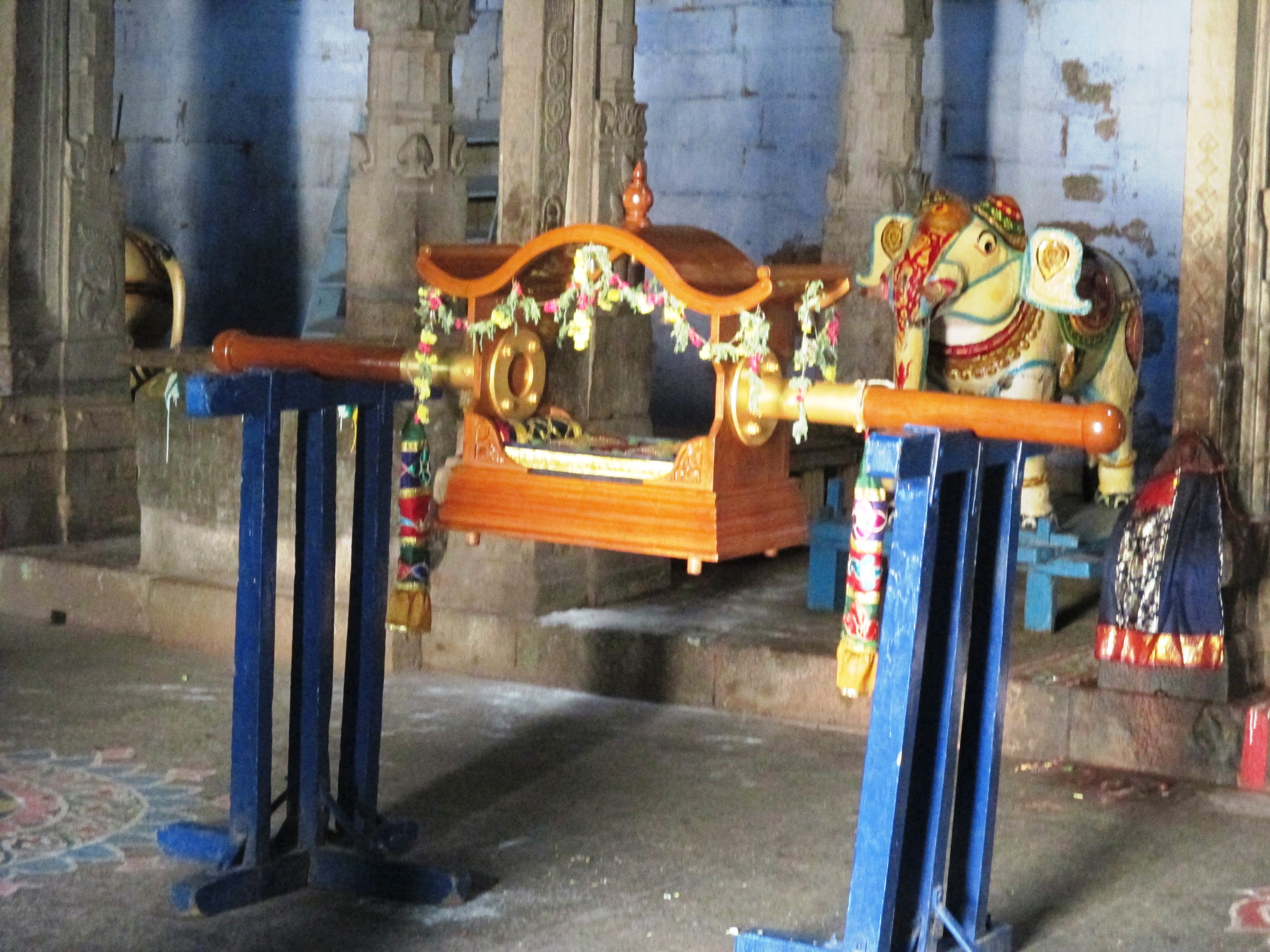 Pushpavananathar temple, Sivaganga